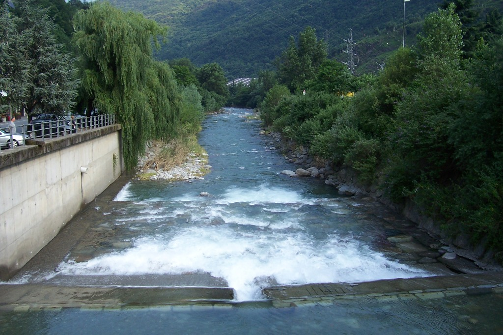 River Oglio next Forno d'Allione, Val Camonica